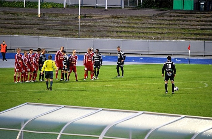 Jari Litmanen giving a free kick. 2009 Finnish Cup quarterfinal FC Lahti vs. FC Jazz, Lahti Stadium.